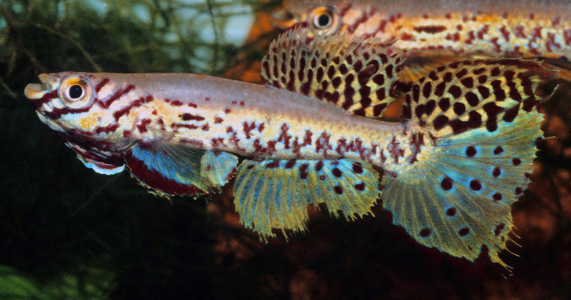 Male specimen of Kribi killi – Fundulopanchax fallax (Ahl, 1935) – originally from, Kribi, Cameroon. It is also know by several no longer valid synonyms, such as Aphyosemion kribianum and Fundulopanchax schwoiseri.